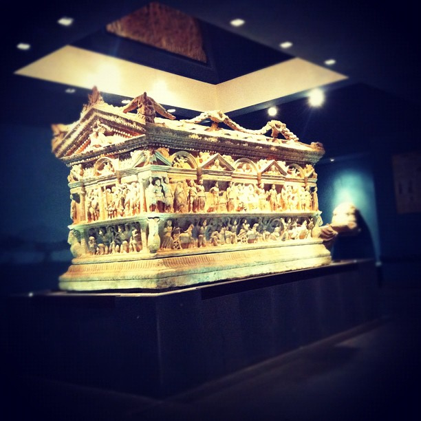 photograph of the sarcophagus displaying two of its sides